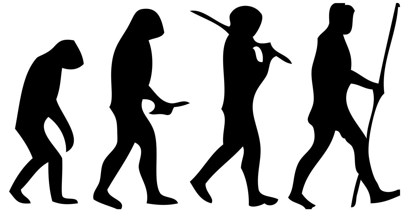 This is a recreated vector image in SVG. The original "Human_evolution_scheme.png" was made by José-Manuel Benitos. The following was stated by the original author: "Simplified scheme of human evolution, it does not try to be trustworthy, but a symbol of this process"